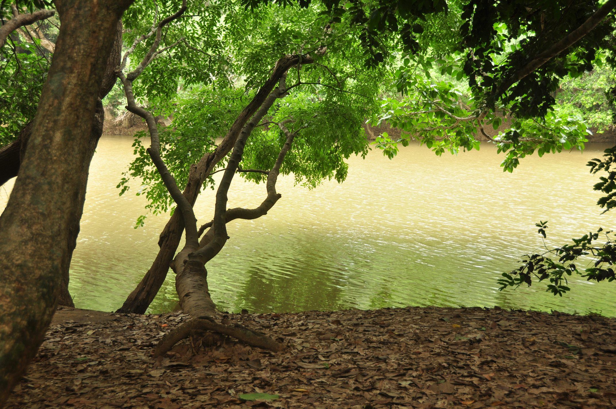 950-acre protected river delta on the Kabini River in the Wayanad district, India.